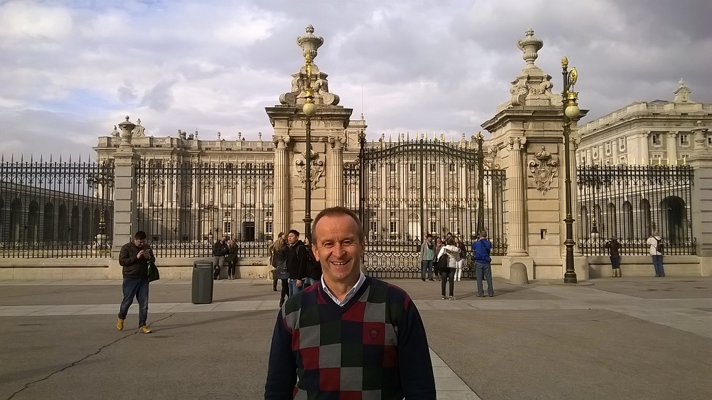 Dr Dragan Djokanovic in Madrid, Spain